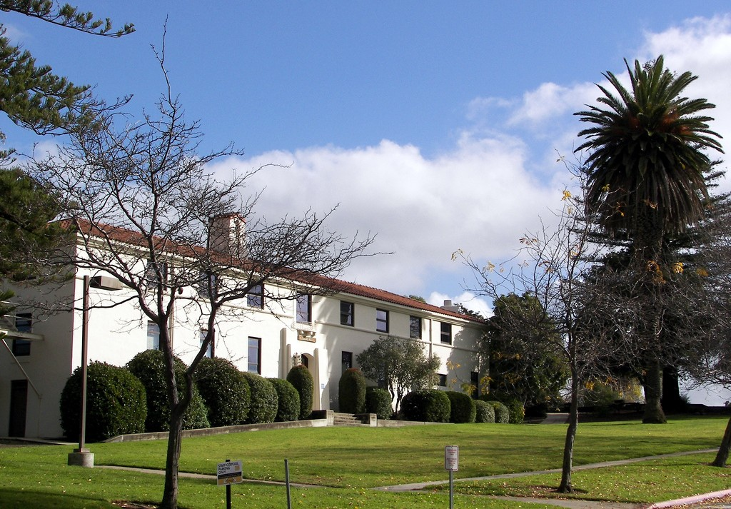 Chase Hall of the California Polytechnic State University